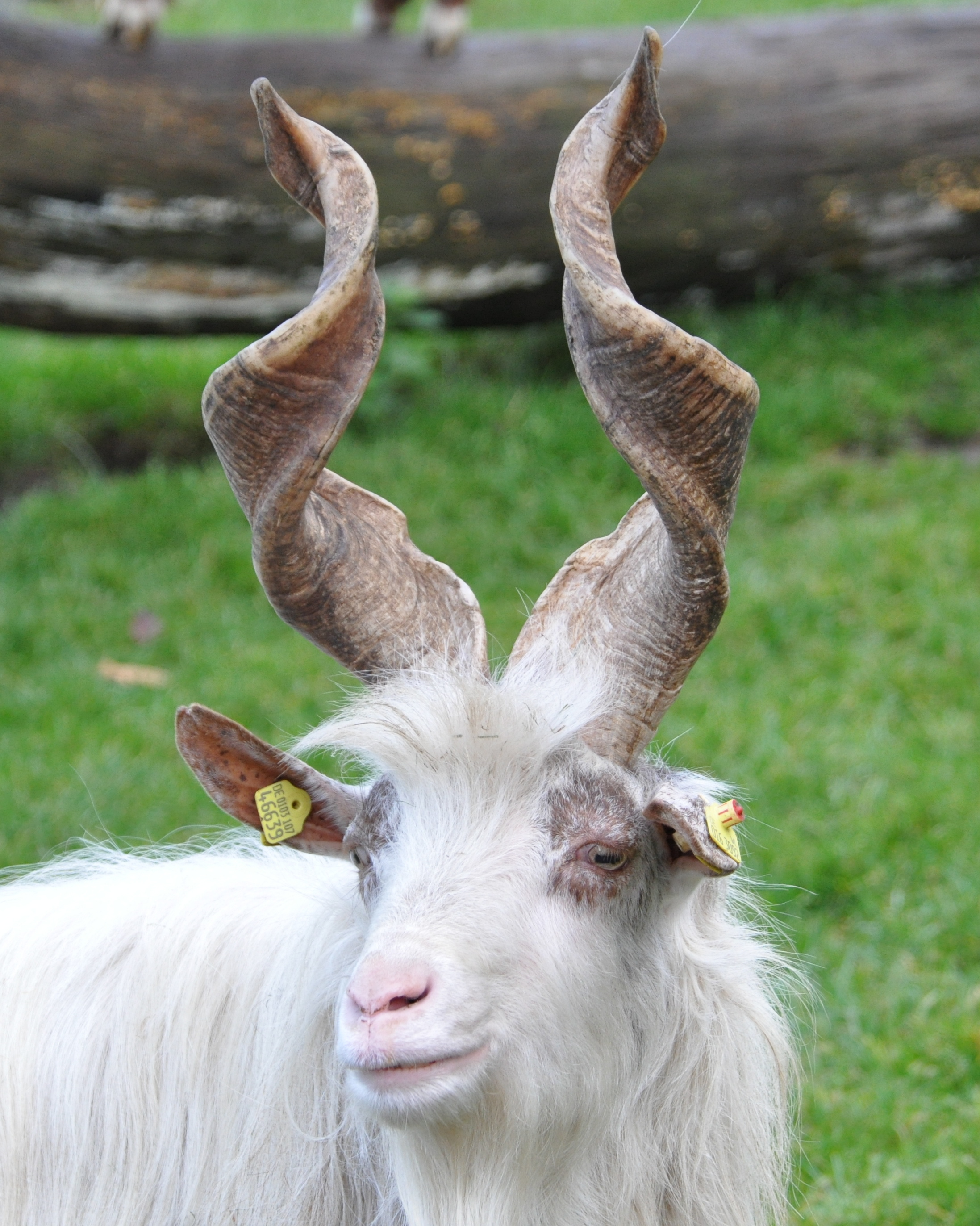 Girgentana Goat (Capra aegagrus hircus) in the Lüneburg Heath wildlife park, Germany.